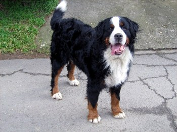 Bernese Mountain Dog, Bernski planinski pas, Johny of Bendzilend